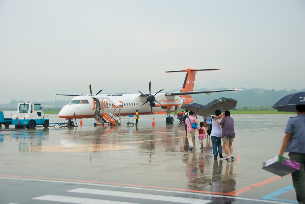 Passengers boarding a Jeju Air propeller plane in the rain at Cheongju Airport in South Korea.